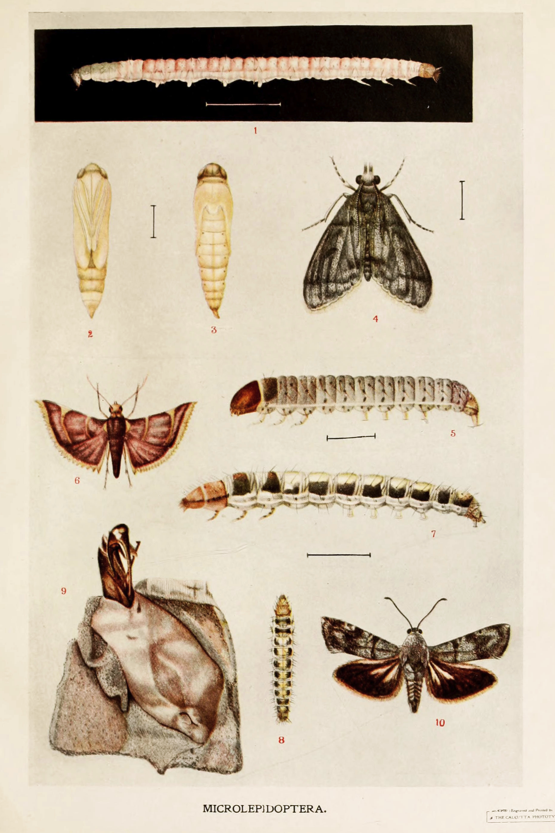 Picture from book Indian Insect Life: a Manual of the Insects of the Plains by Harold Maxwell-Lefroy. Plate LII: Fig.1-Metasia coniotalis, Hampson = Dolicharthria bruguieralis Fig.2-Dolicharthria bruguieralis Fig.3-Dolicharthria bruguieralis Fig.4-Dolicharthria bruguieralis Fig.5-Hypsopygia mauritialis Fig.6-Hypsopygia mauritialis Fig.7-Phycodes radiata (Ochsenheimer, 1808) Fig.8-Phycodes radiata Fig.9-Phycodes radiata Fig.10-Phycodes radiata